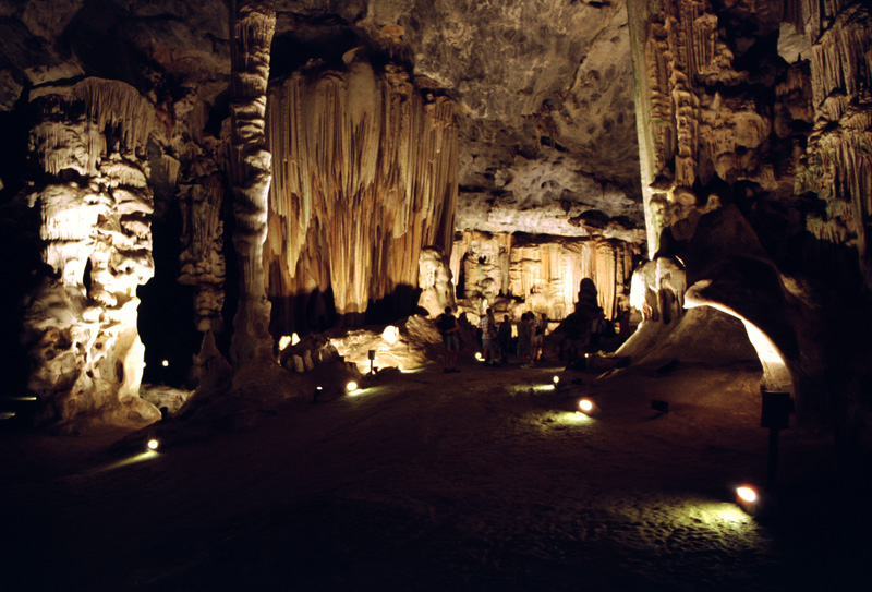 Monumental stalagmite & stalactite formations dramatically lit with spotlights